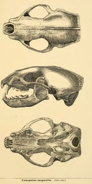 Striped Hog-nosed Skunk skull